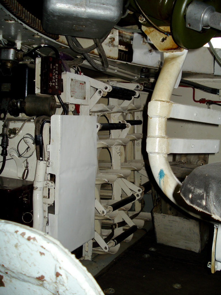 Russian T-54 tank, used by Finland. This model was cut open in for training purposes. Various systems of the tank have been illustrated with different colors. Finnish Tank Museum (Panssarimuseo) in Parola. This view shows the ammunition storage bins in front, on the right side of the driver. Photo taken on July 14, 2006. Source: Photo by me, User:Balcer.